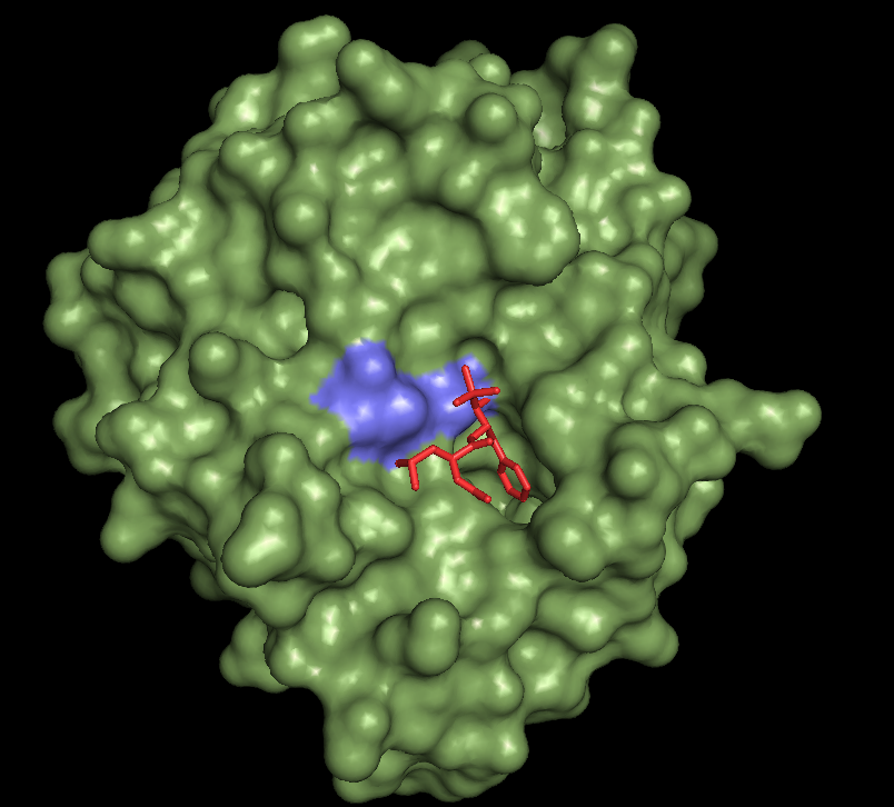 Chimotrypsin-trifluoromethyl ketone inhibitor complex, created by Pymol on PDB 7GCH